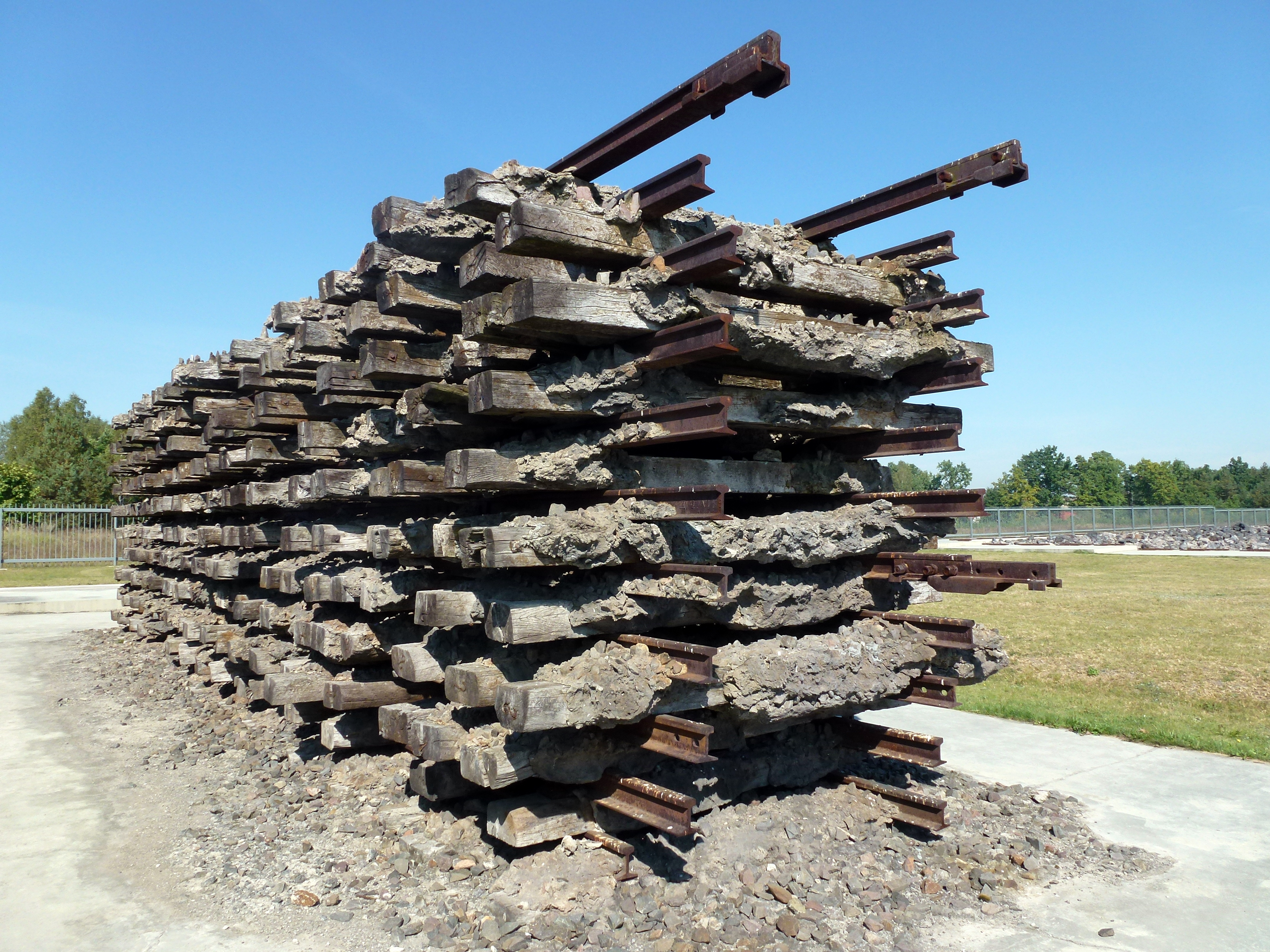 Former German-Nazi extermination camp in Belzec